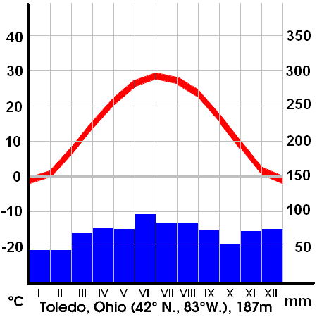 Maxium temperature and precip. in Toledo, Ohio. Created using Data from WMO / NWS